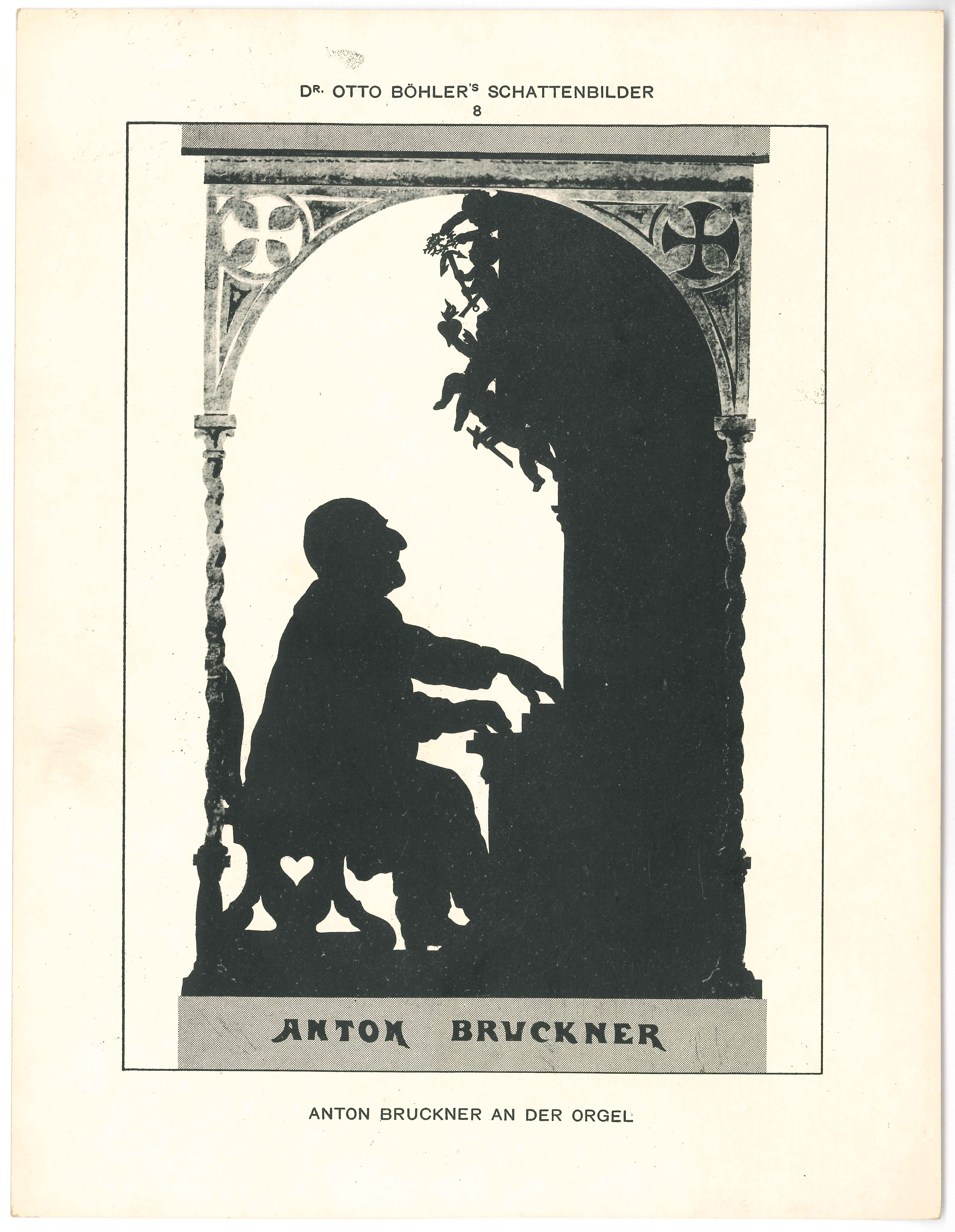 Anton Bruckner, Silhouette 20 x 26 cm; photo of Böhler´s silhouette printed on thick card